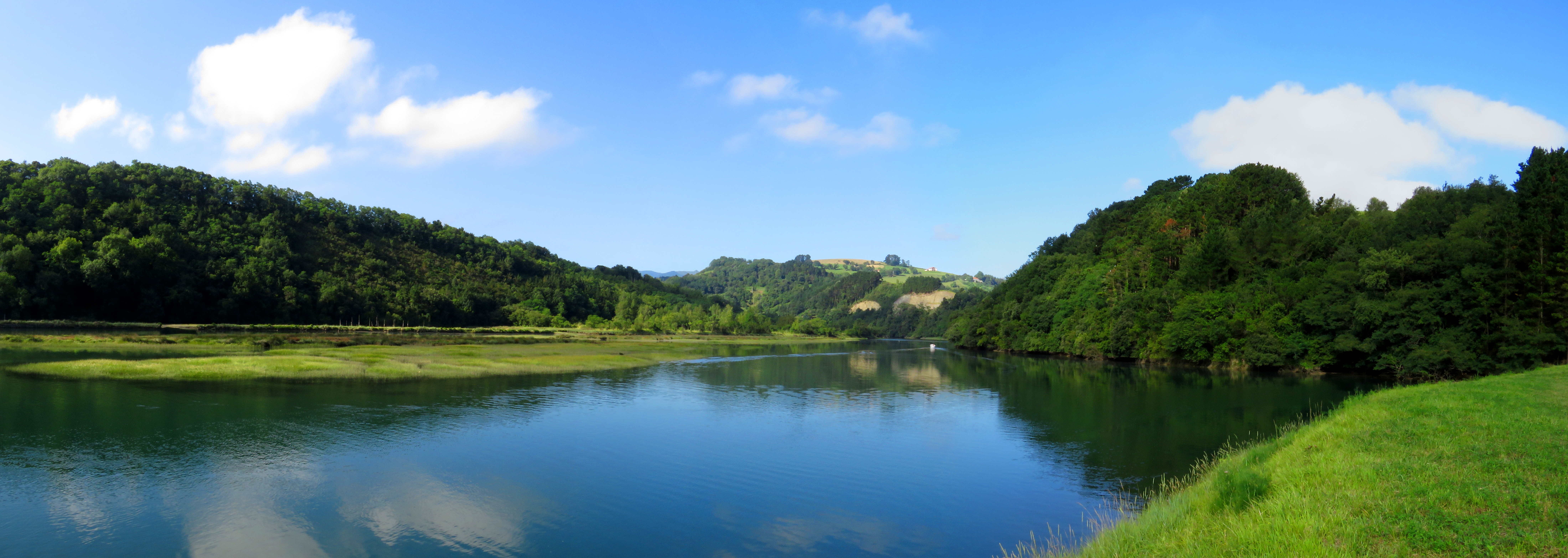 This is a photography of a Special Area of Conservation in Spain with the ID: ES2120004. Natura2000 entry, EEA entry